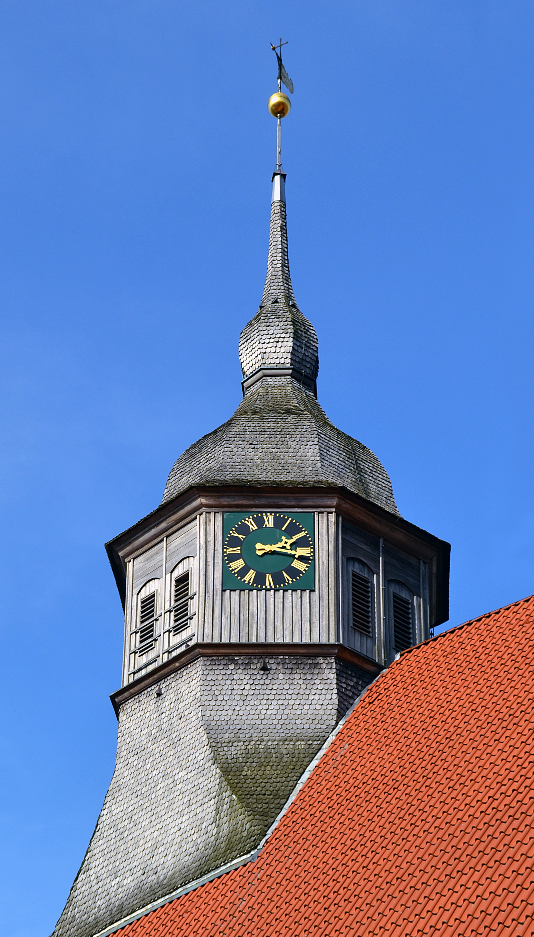 This picture shows the last 1996-1999 renovated church tower of the St. Liborius Kirche in Bremervörde.